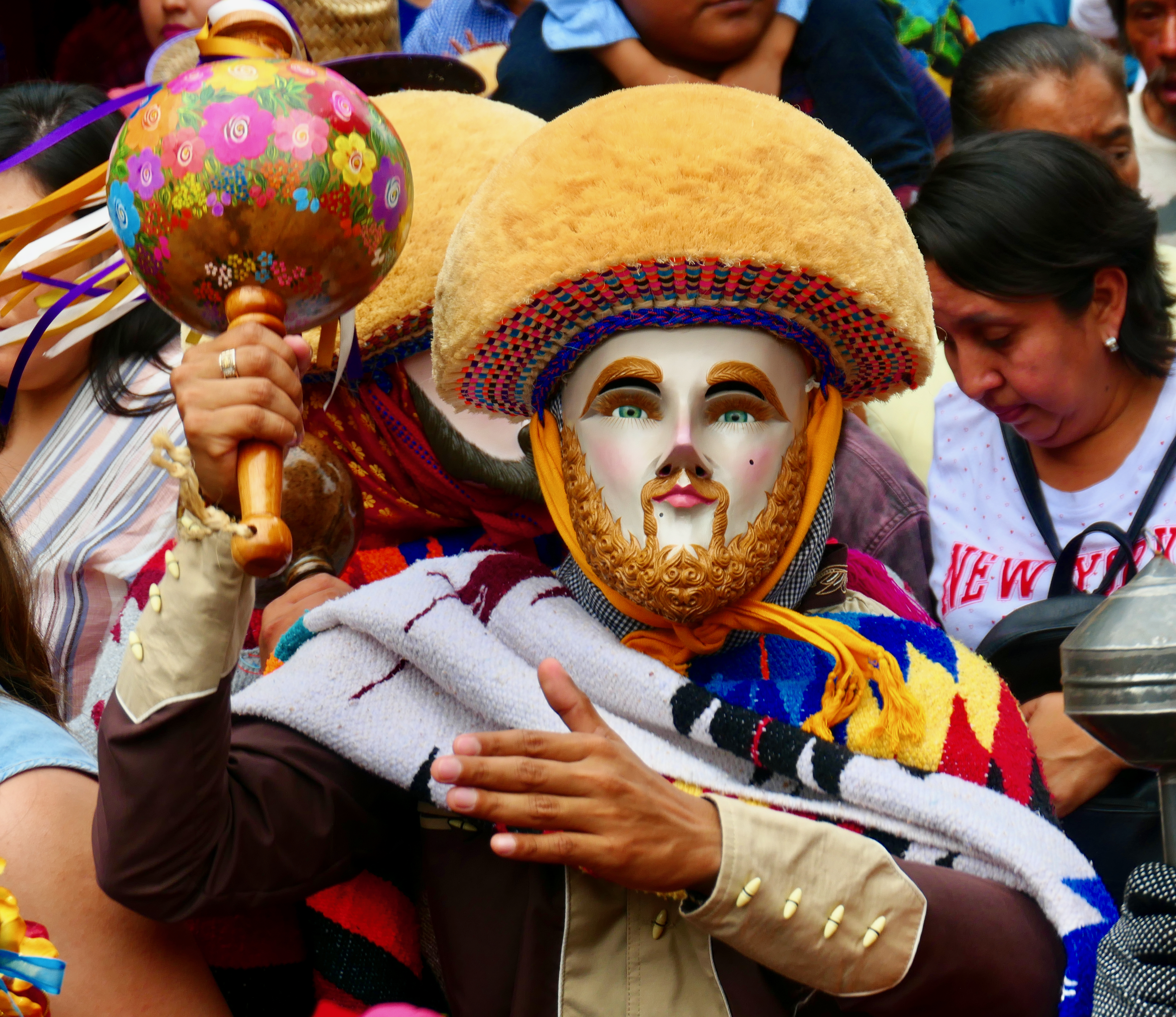 Parachicos 2020, Chiapa de Corzo, Mexico